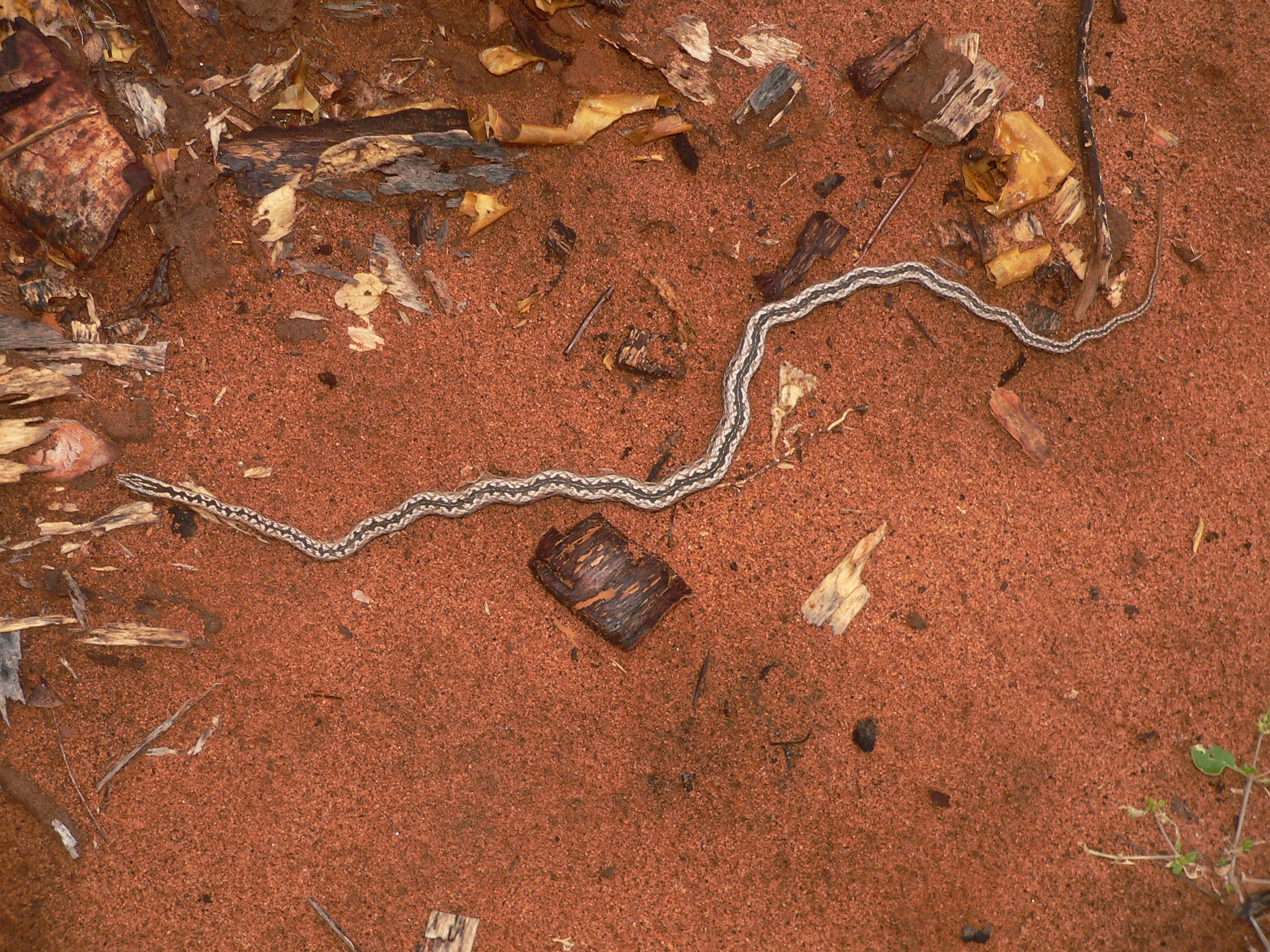 Mimophis mahfalensis (Colubridae); Moussa Park, Mangily, Madagascar